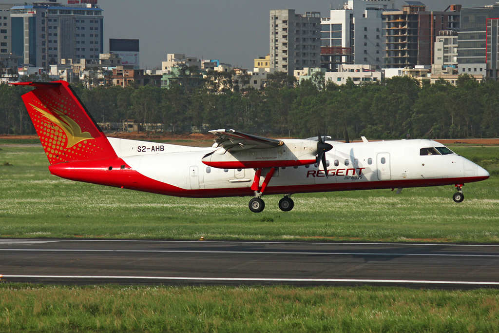 Regent's Dash-8,Hotel-Bravo Landing at VGHS.